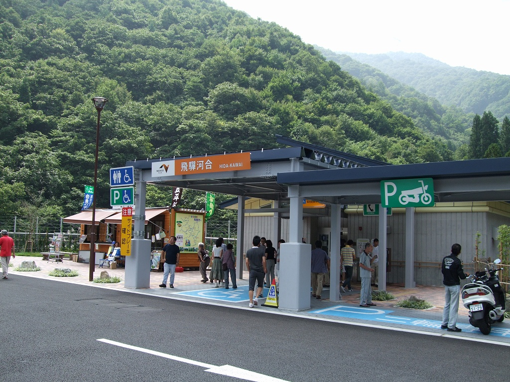 Hida-Kawai Parking Area on the Tokai-Hokuriku Expressway outbound line for Toyama